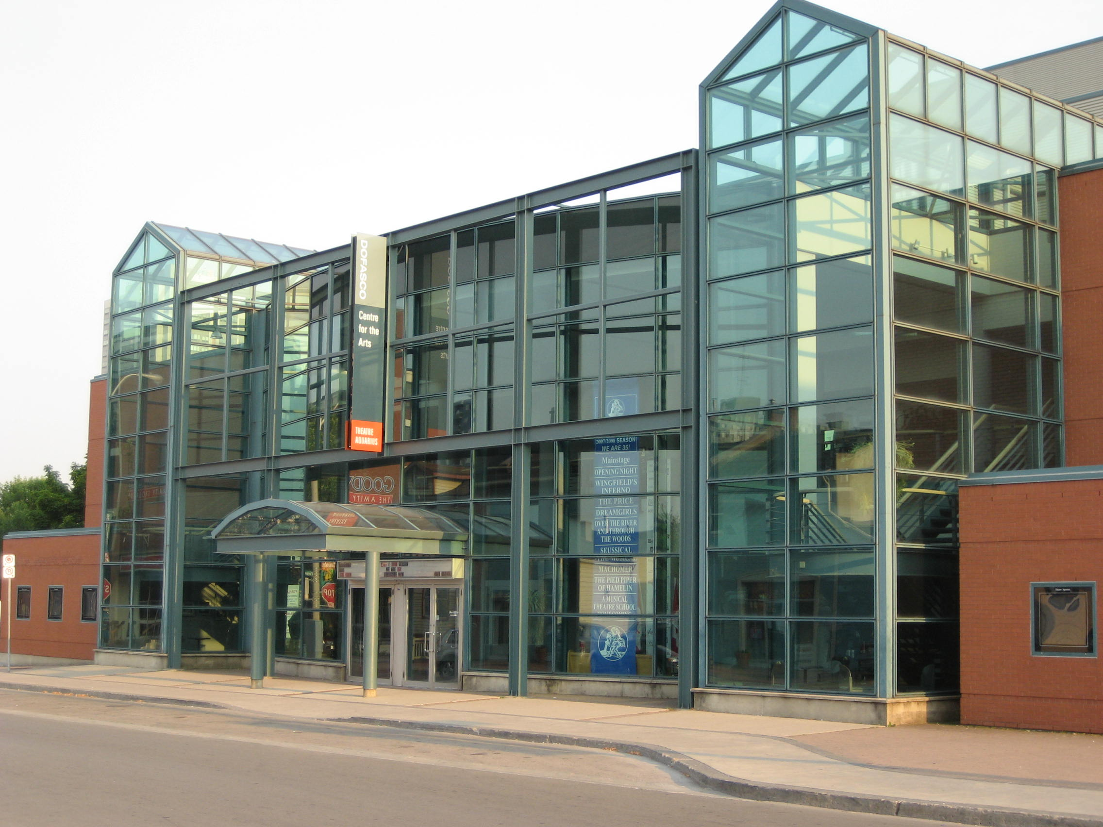 Theatre Aquarius, King William Street, downtown Hamilton, Ontario